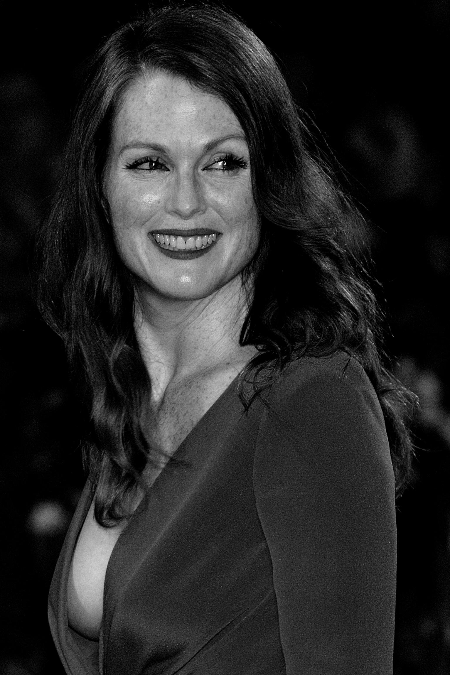 Actress Julianne Moore - 66th Venice International Film Festival.